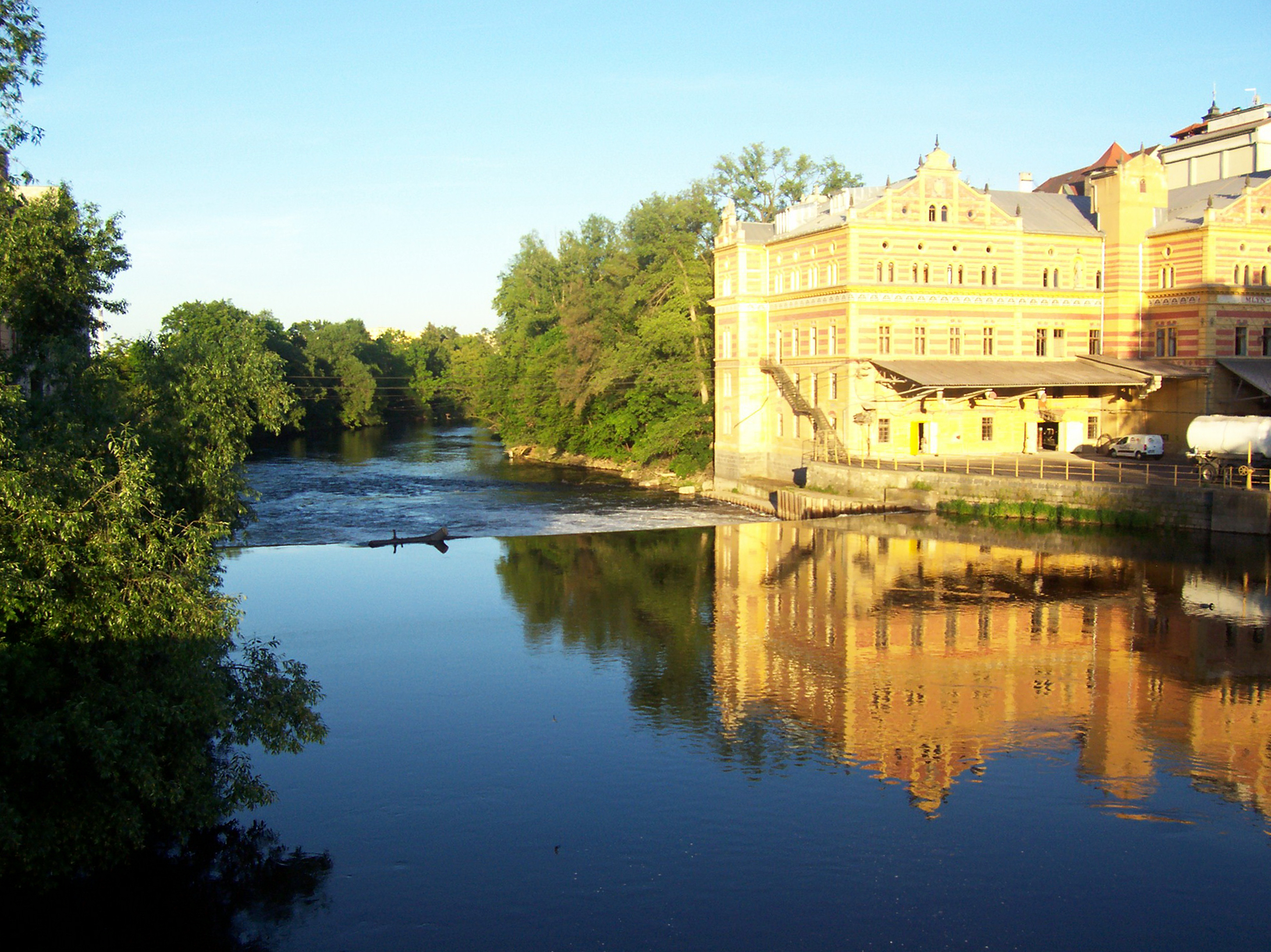 Weir on Ohře river in Louny and Jiráskův mill.